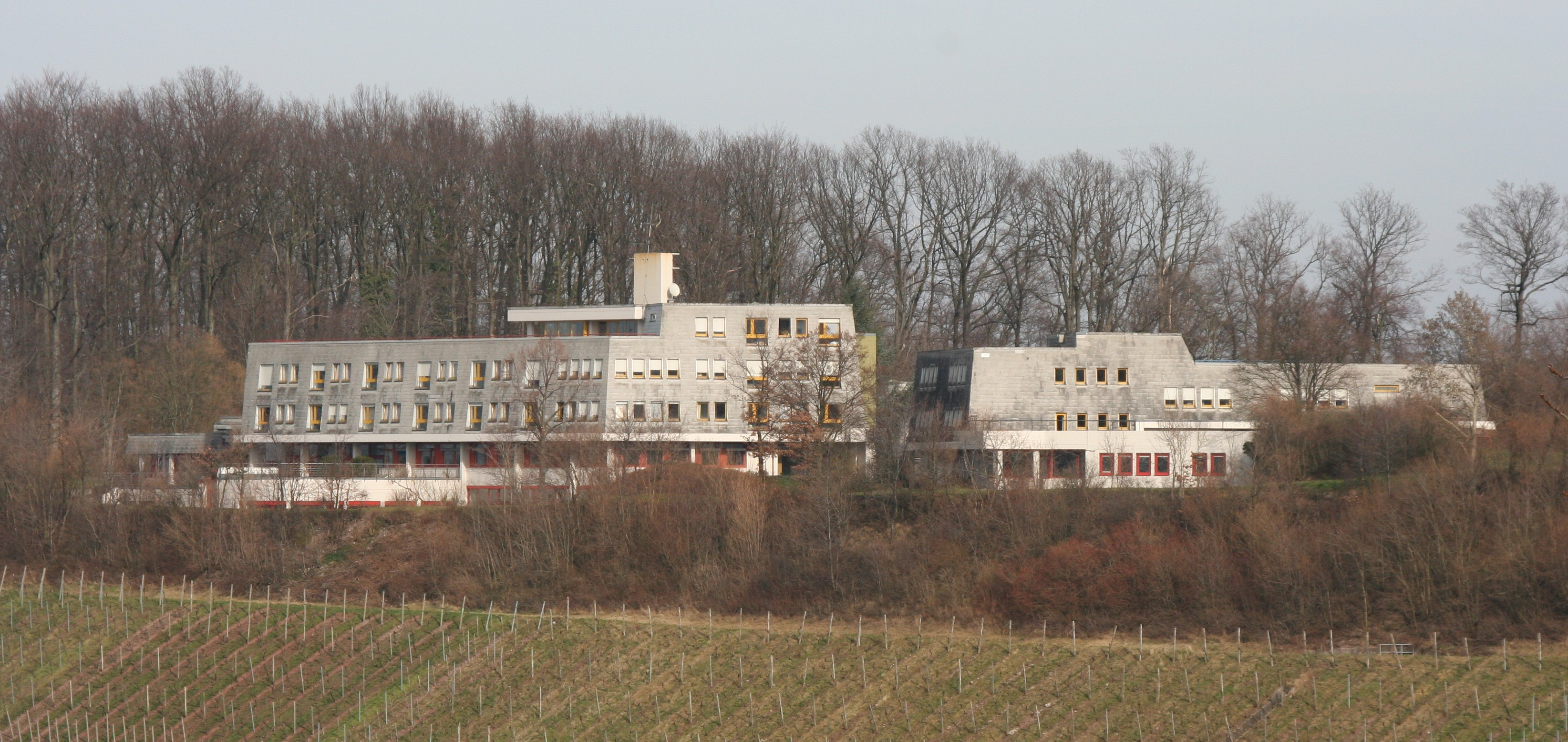 The protestant conference place in Löwenstein-Altenhau